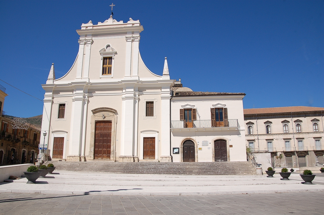 Raiano